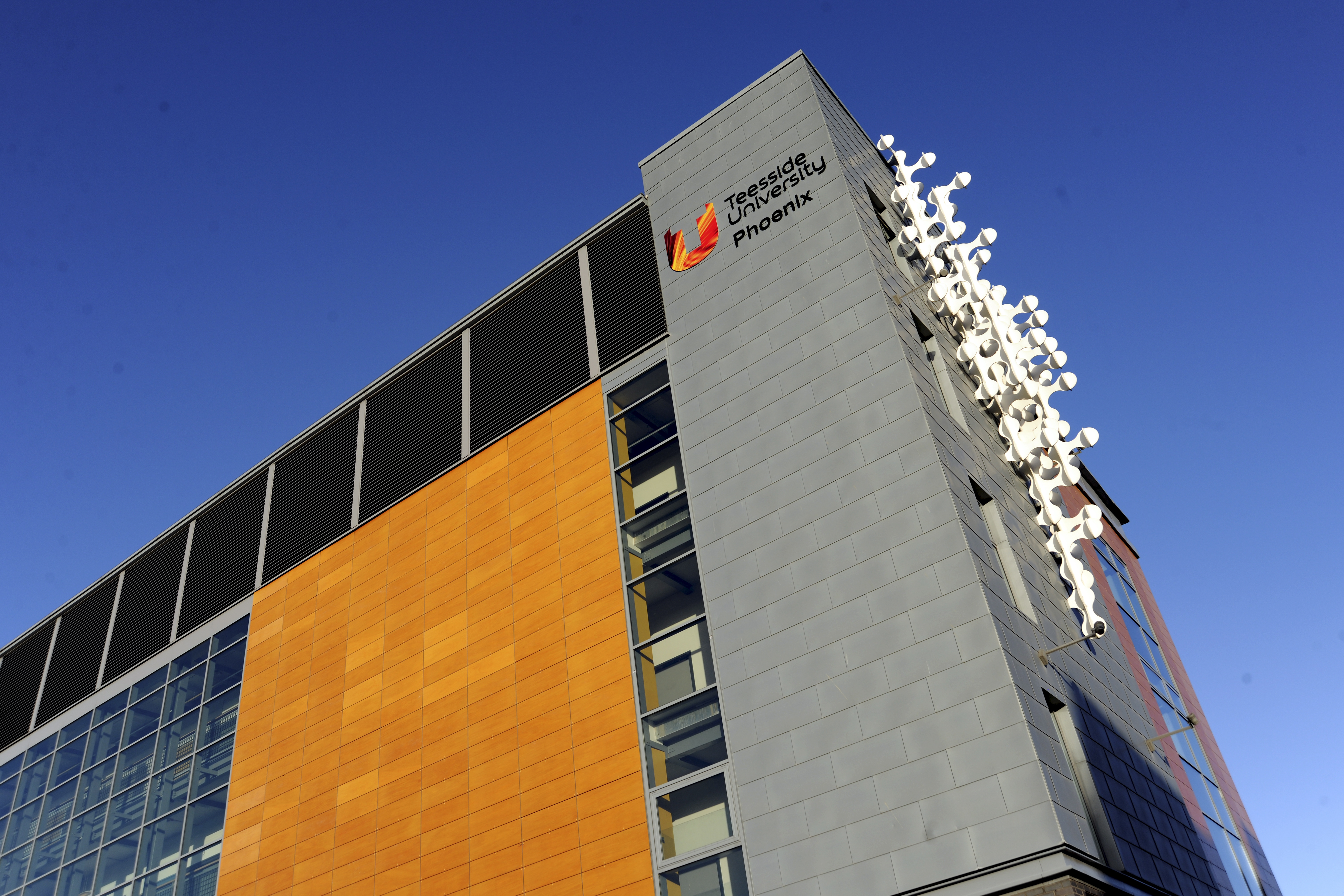 Phoenix Building. Designed by CPMG Architects 2006